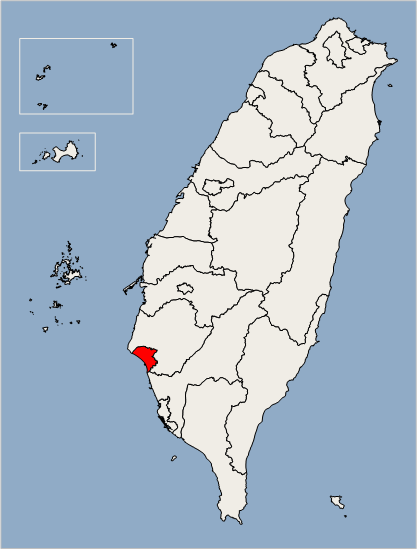 Location of Tainan City in Taiwan